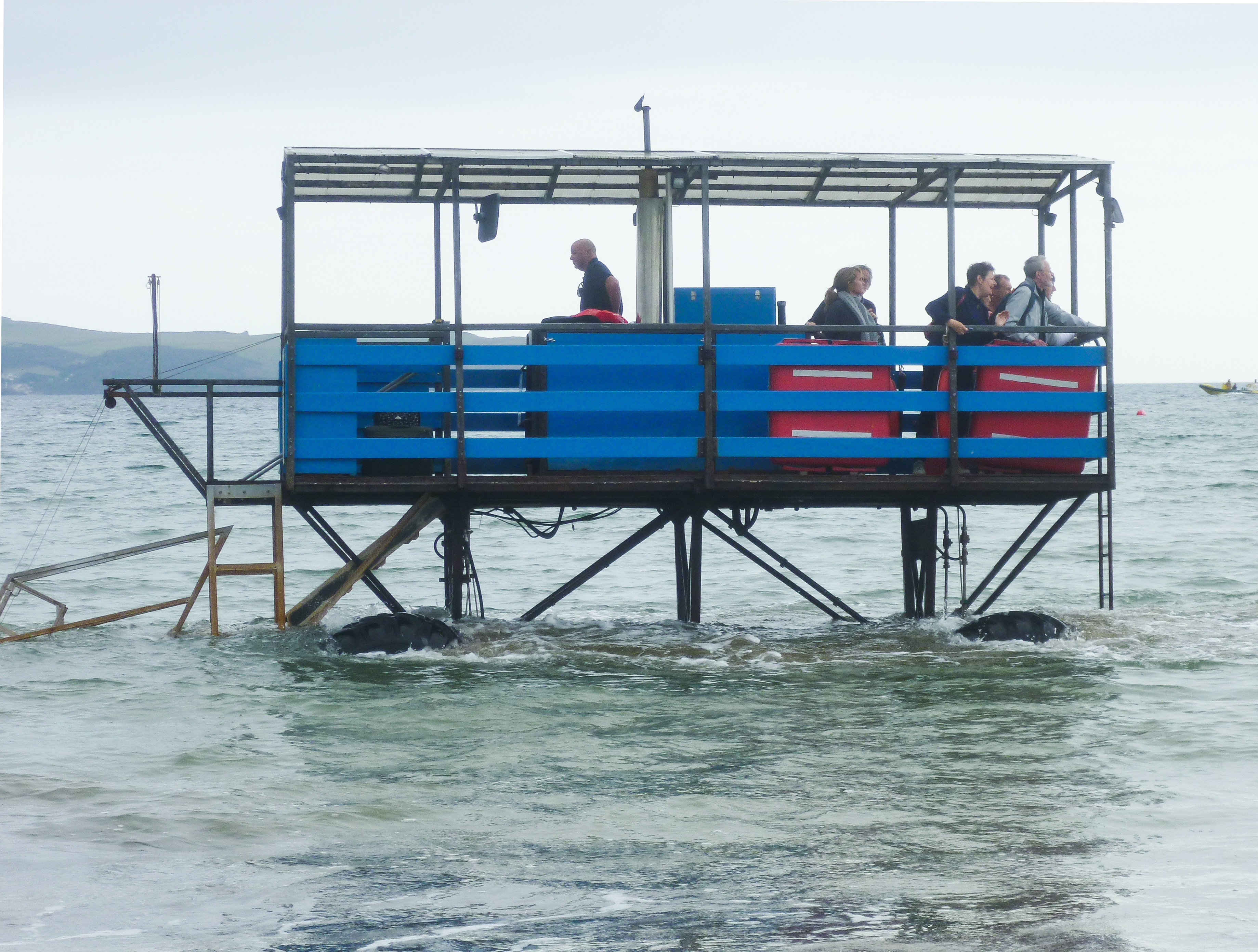 Burgh Island sea tractor in the water. This wheeled vehicle is used to transport passengers from the mainland to Burgh Island when the tide is in and the tidal causeway connecting them is under water.